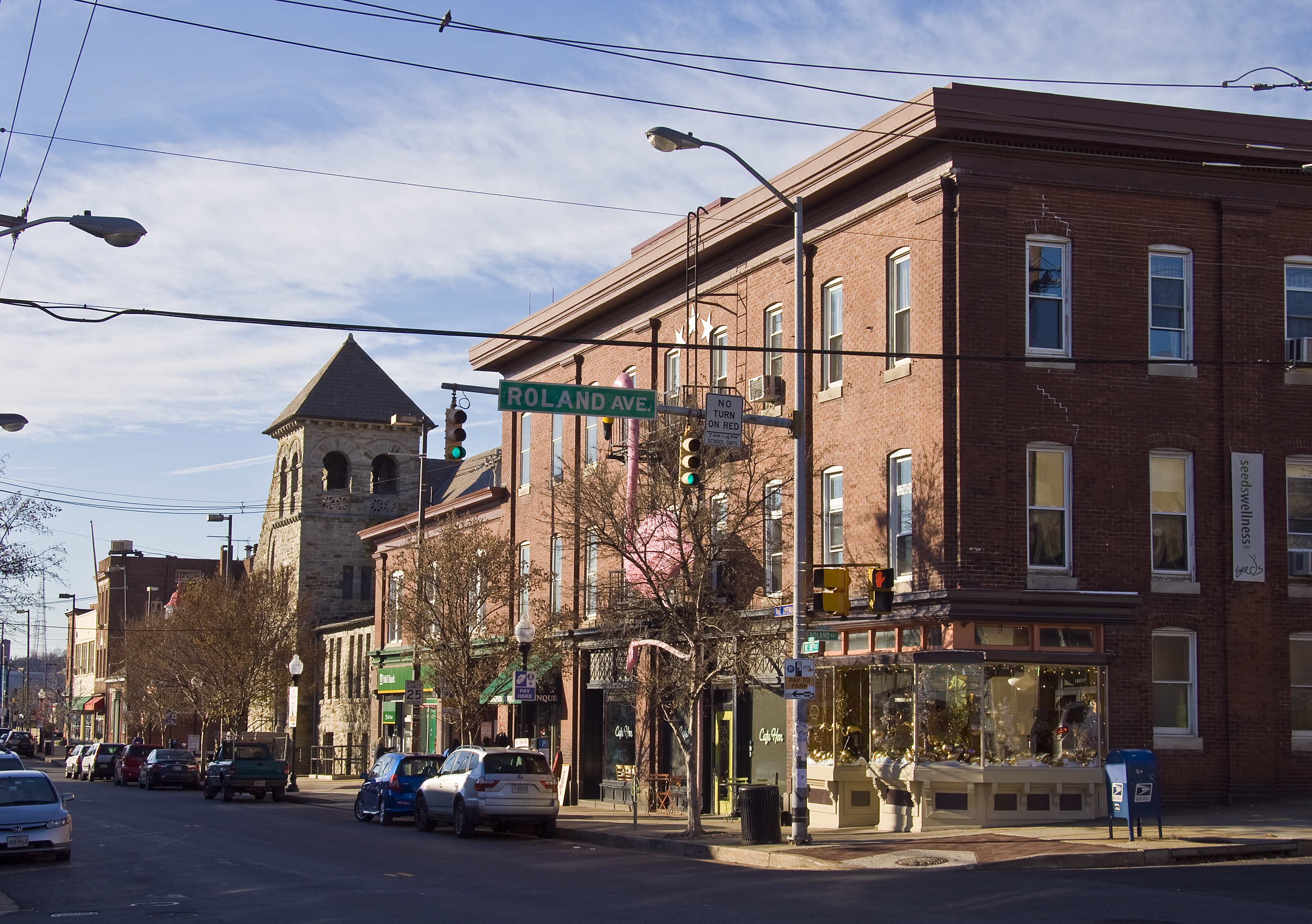 Intersection of 36th and Roland Avenue, Hampden, Baltimore, Maryland, USA